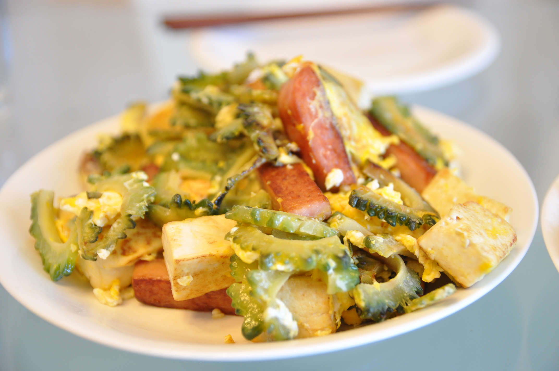 Gōya champuru, an Okinawan stir fry dish. Champuru is considered the representative dish of Okinawan cuisine, and gōya is the Okinawan language term for bitter melon.